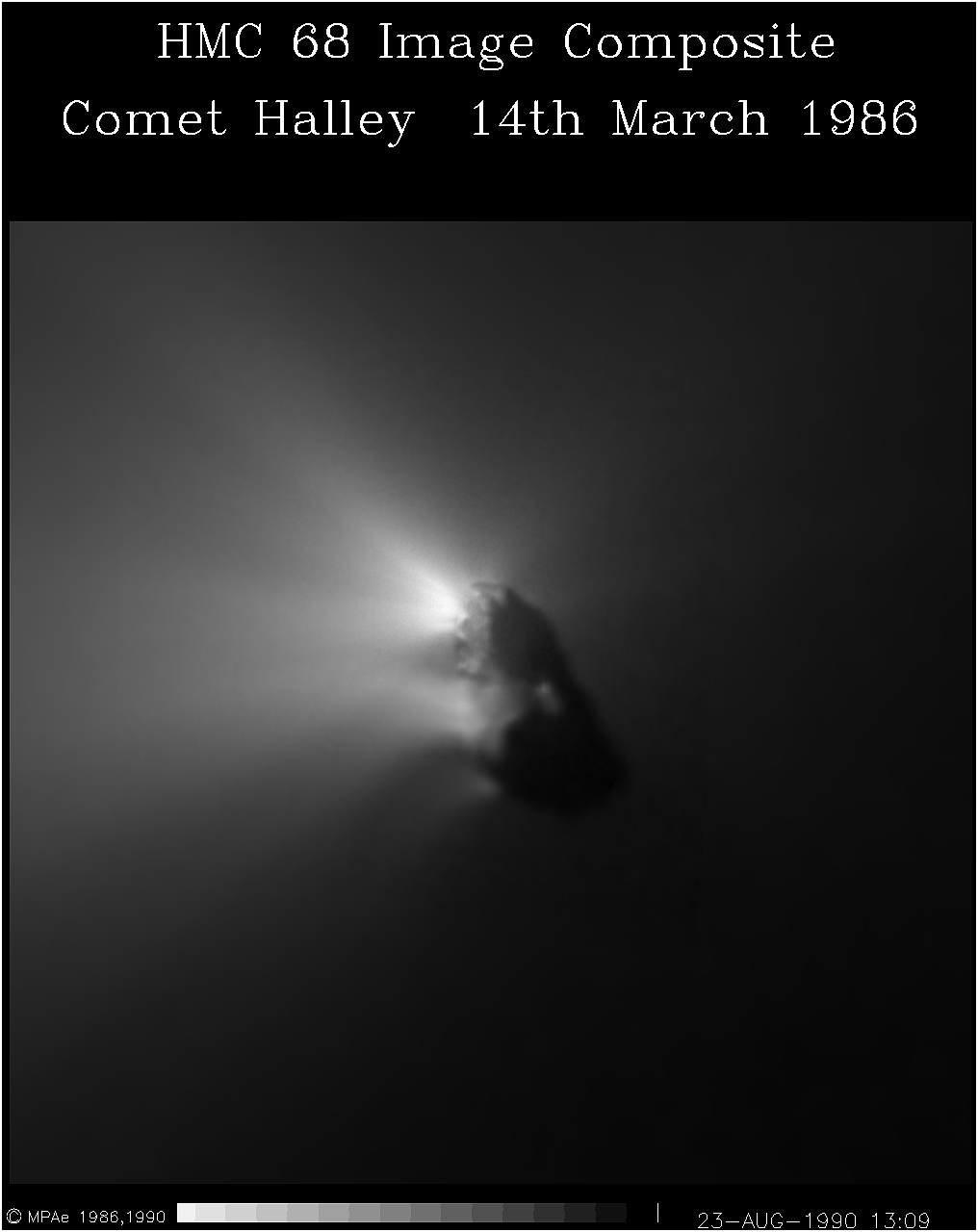 Comet Halley as seen by ESA’s Giotto spacecraft in 1986, the last time the comet visited the inner Solar System. Giotto was ESA’s first deep mission, and obtained the first close-up images of a comet. This image was taken from a distance of about 2000 km from Comet Halley. The Sun is located towards the left of the image, provoking outbursts of gas and dust from the comet’s nucleus.